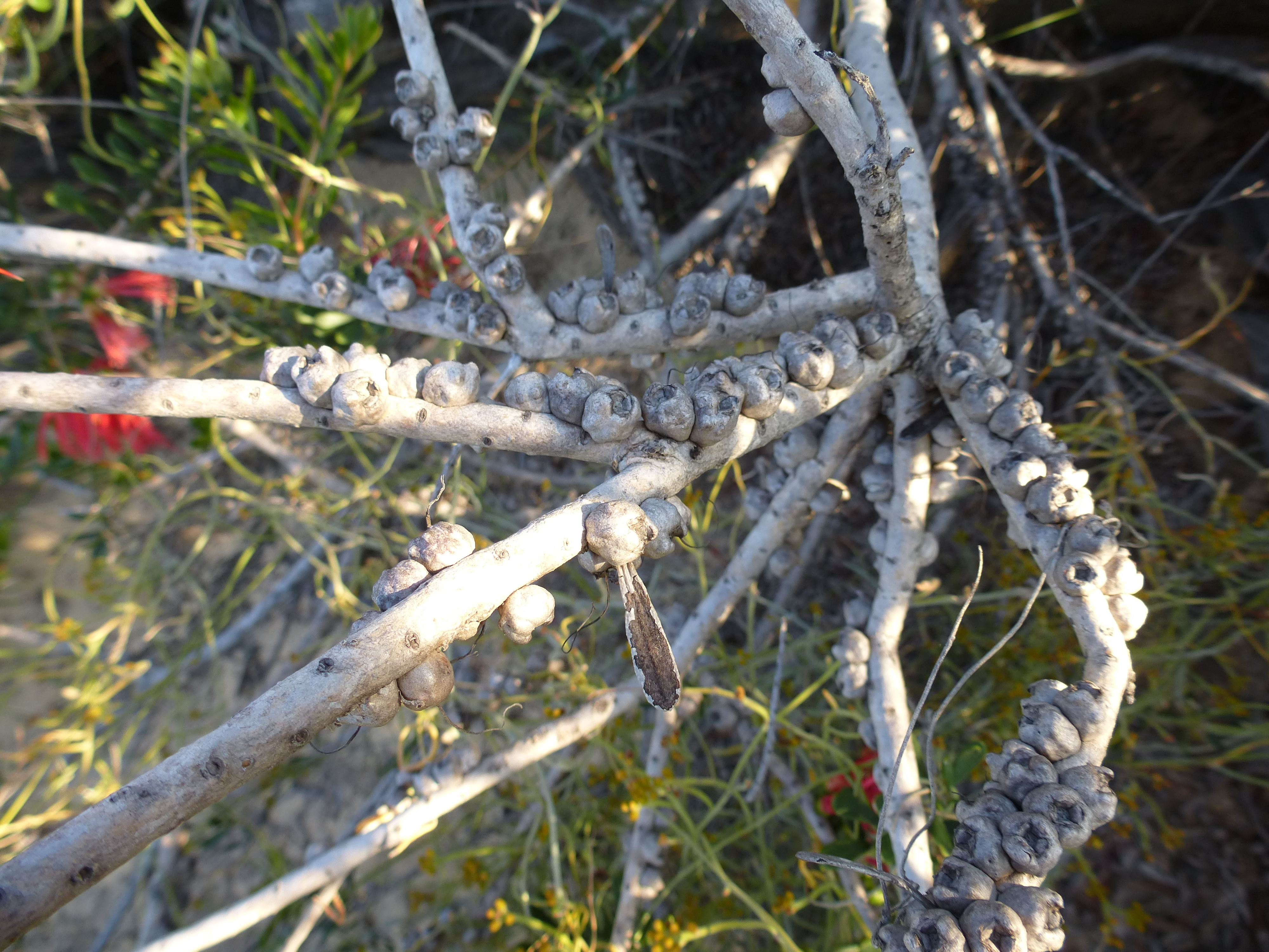 Calothamnus quadrifidus homalophyllus growing near the Red Bluff car park